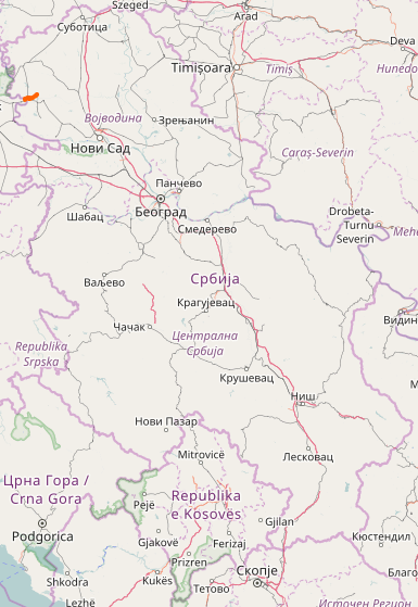 OpenStreetMap of State Road 17 in Serbia.